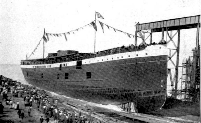 Old Dominion Line Steamship MONROE, launch 1902 at Newport News Shipbuilding; from MARINE ENGINEERING, VIII, No. 8, August 1903 feature article.